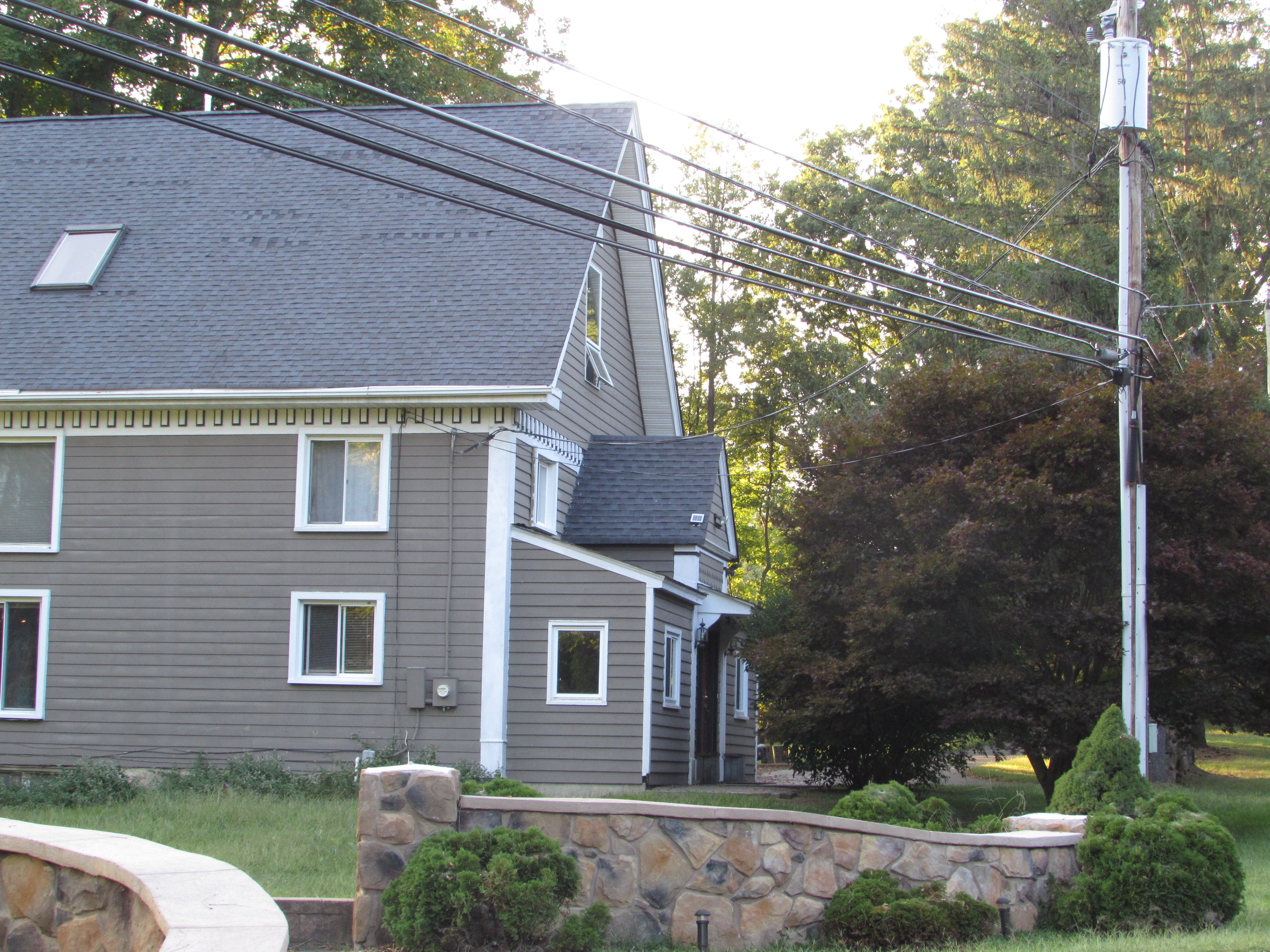 The gabled entrance of the former Wesley M. E. Church in McClellandville. Most of the original decoration has been removed except for the cornice.